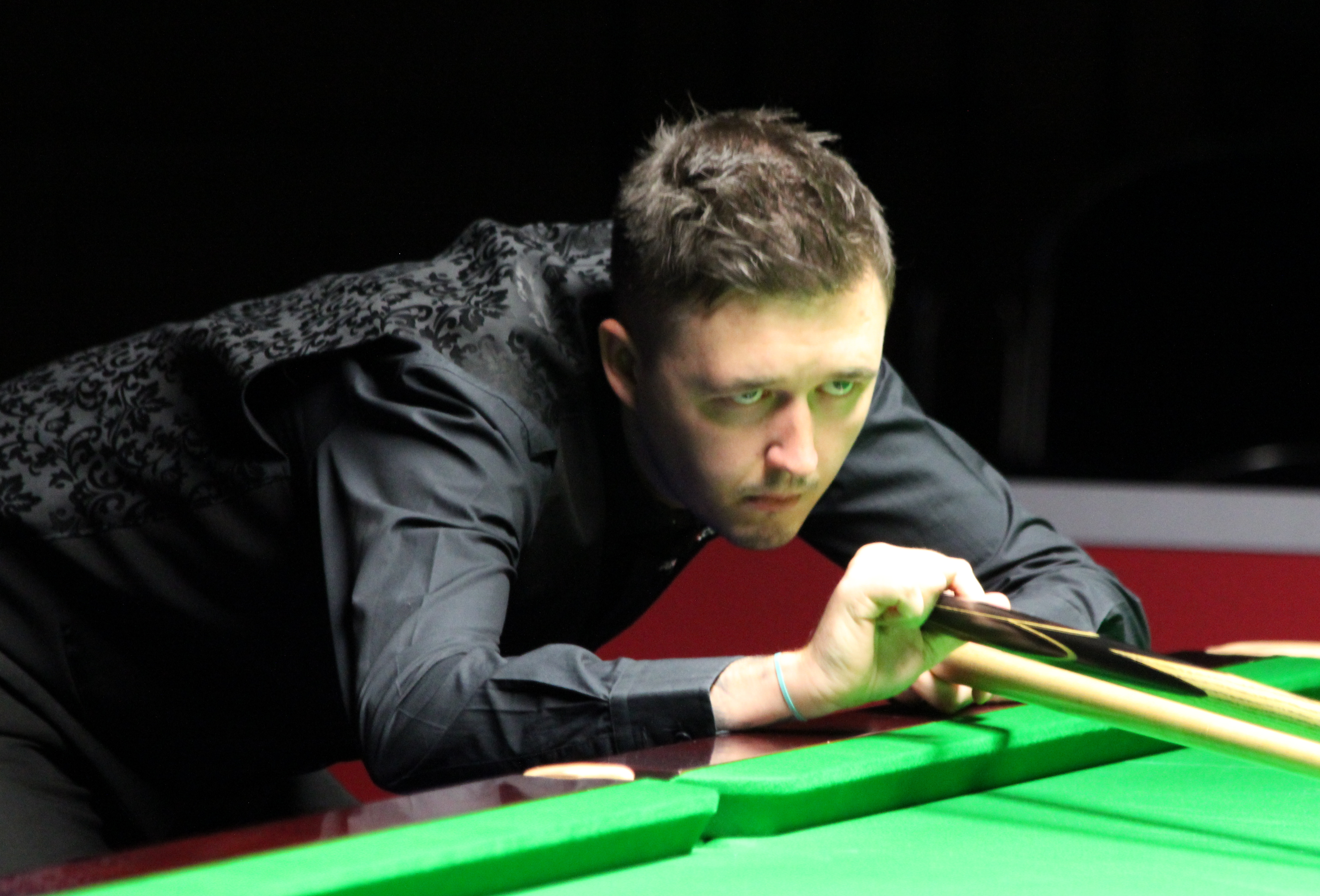 Kyren Wilson at the Paul Hunter Classic 2018